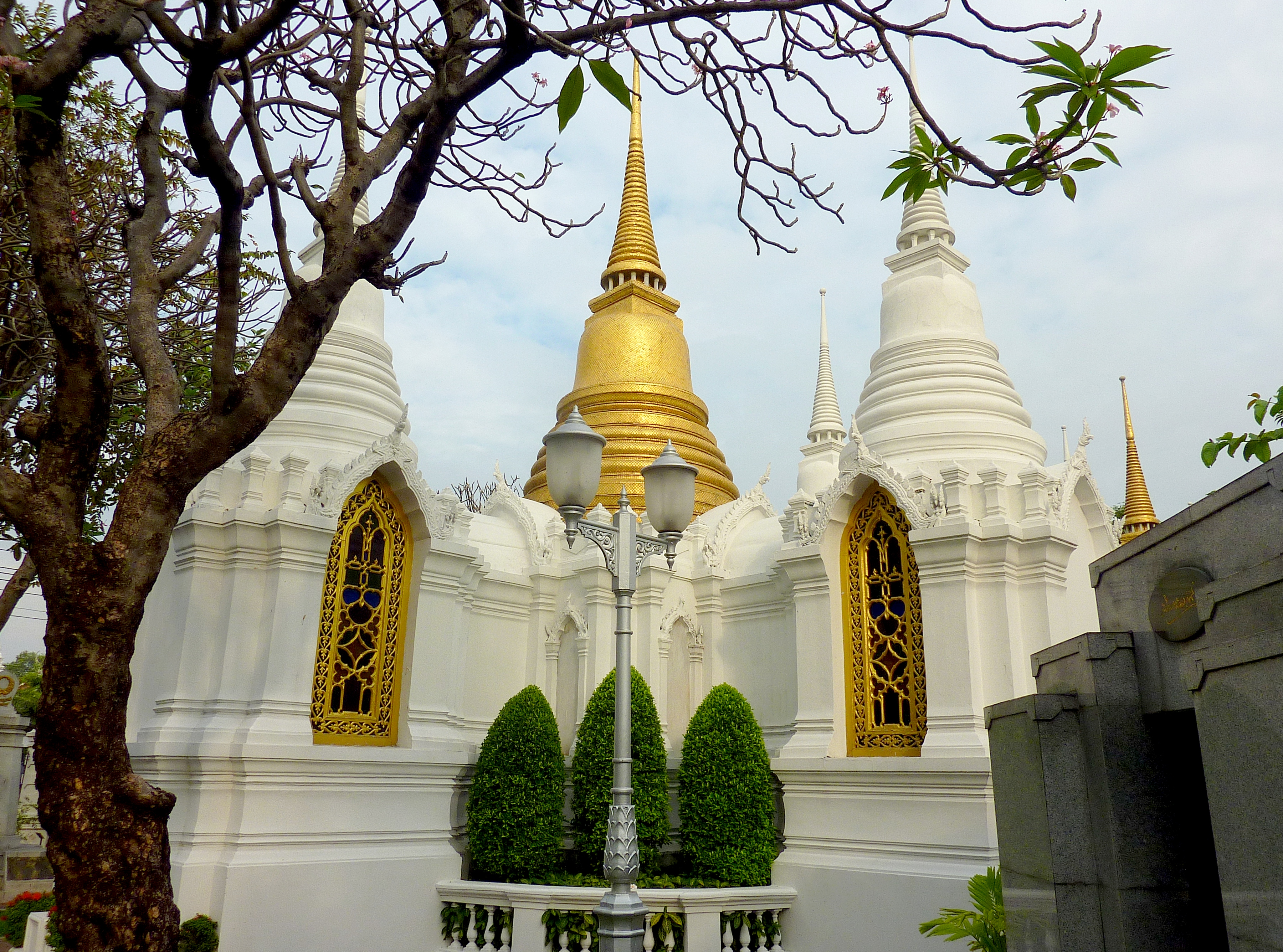 32 Cemetery Buildings, Wat Ratchabophit, Bangkok